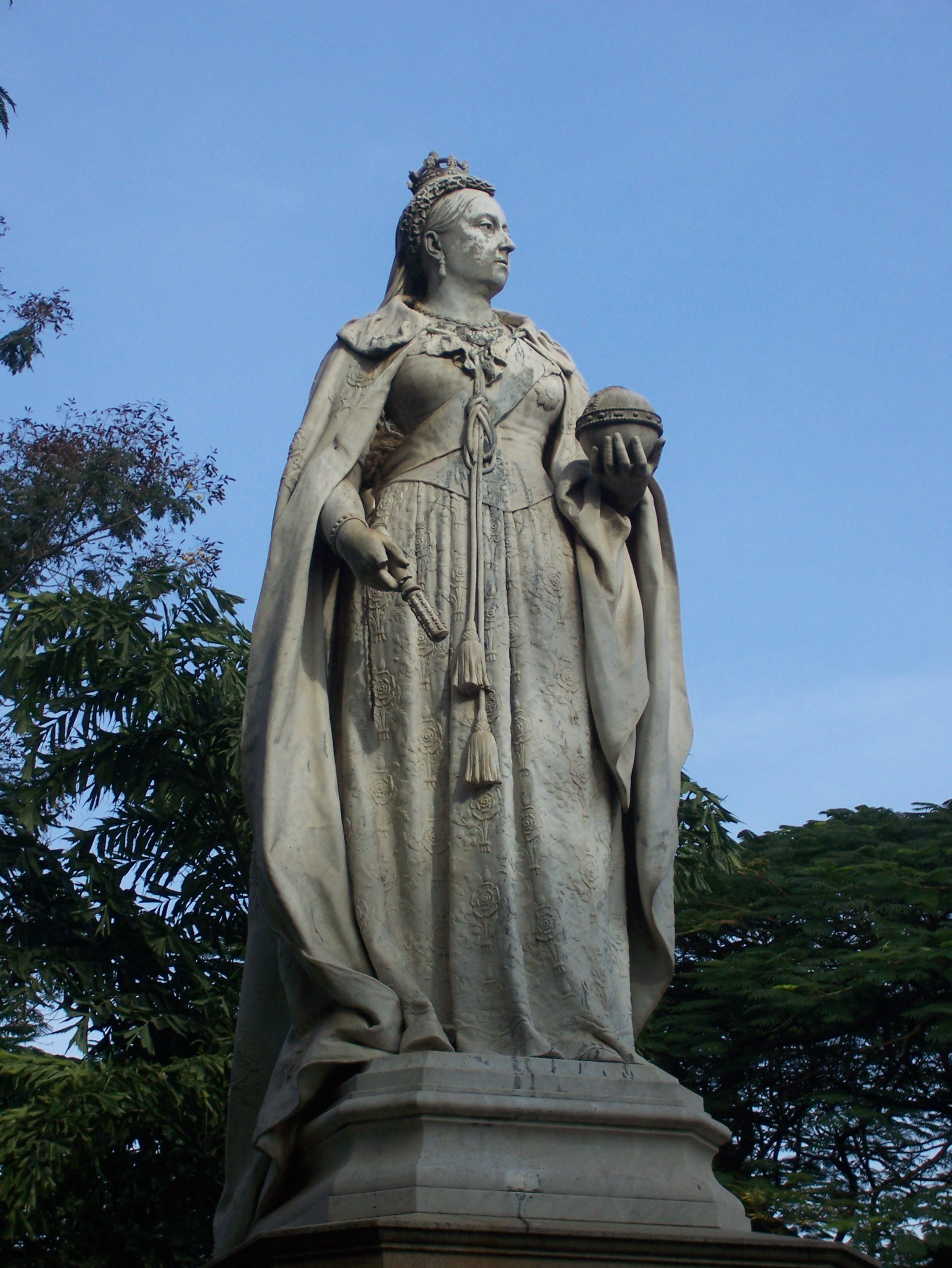 Statue of Queen Victoria in Cubbon Park, Bangalore.